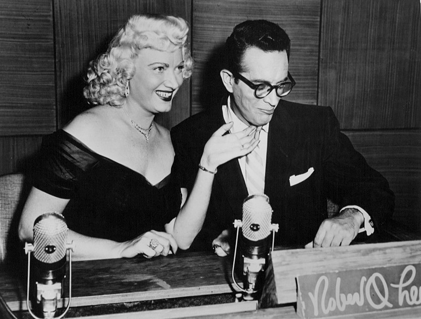 Photo from the television game show The Name's the Same. Pictured are host Robert Q. Lewis and celebrity guest Dagmar. The item has no copyright markings on it as can be seen in the links above.